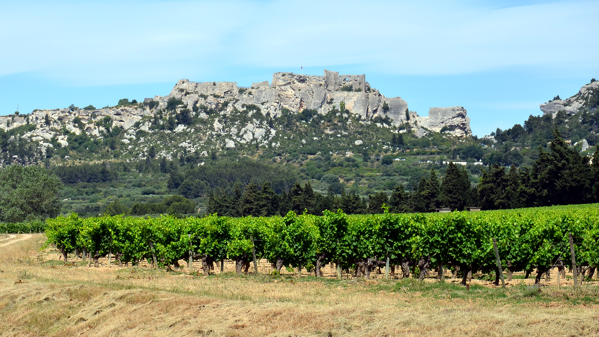 Les Baux view from east, vineyard cultivation